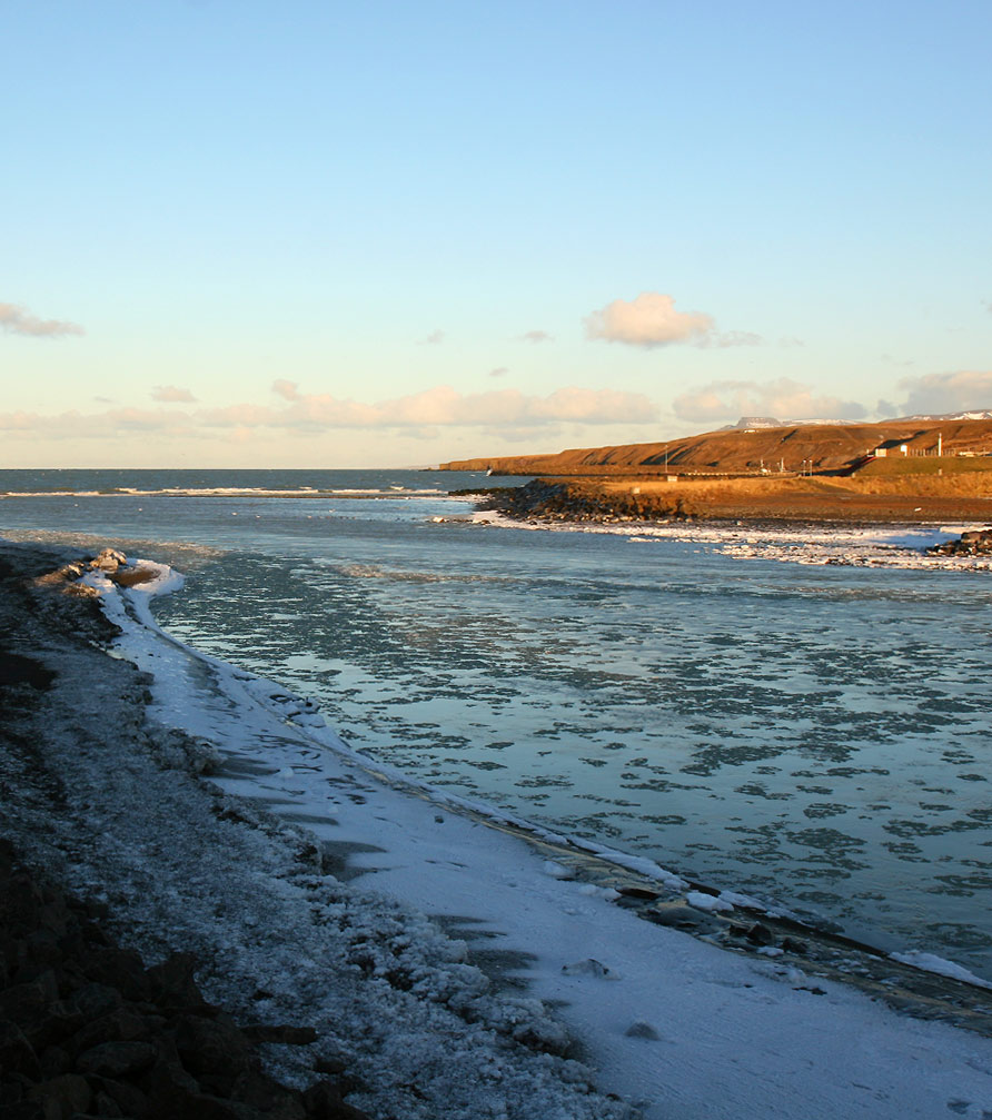 Mouth of Blanda river and Arctic ocean, November 21 13:00 Iceland, November 2007 Photo by me user debivort (or friend, with permission given to upload and license freely).